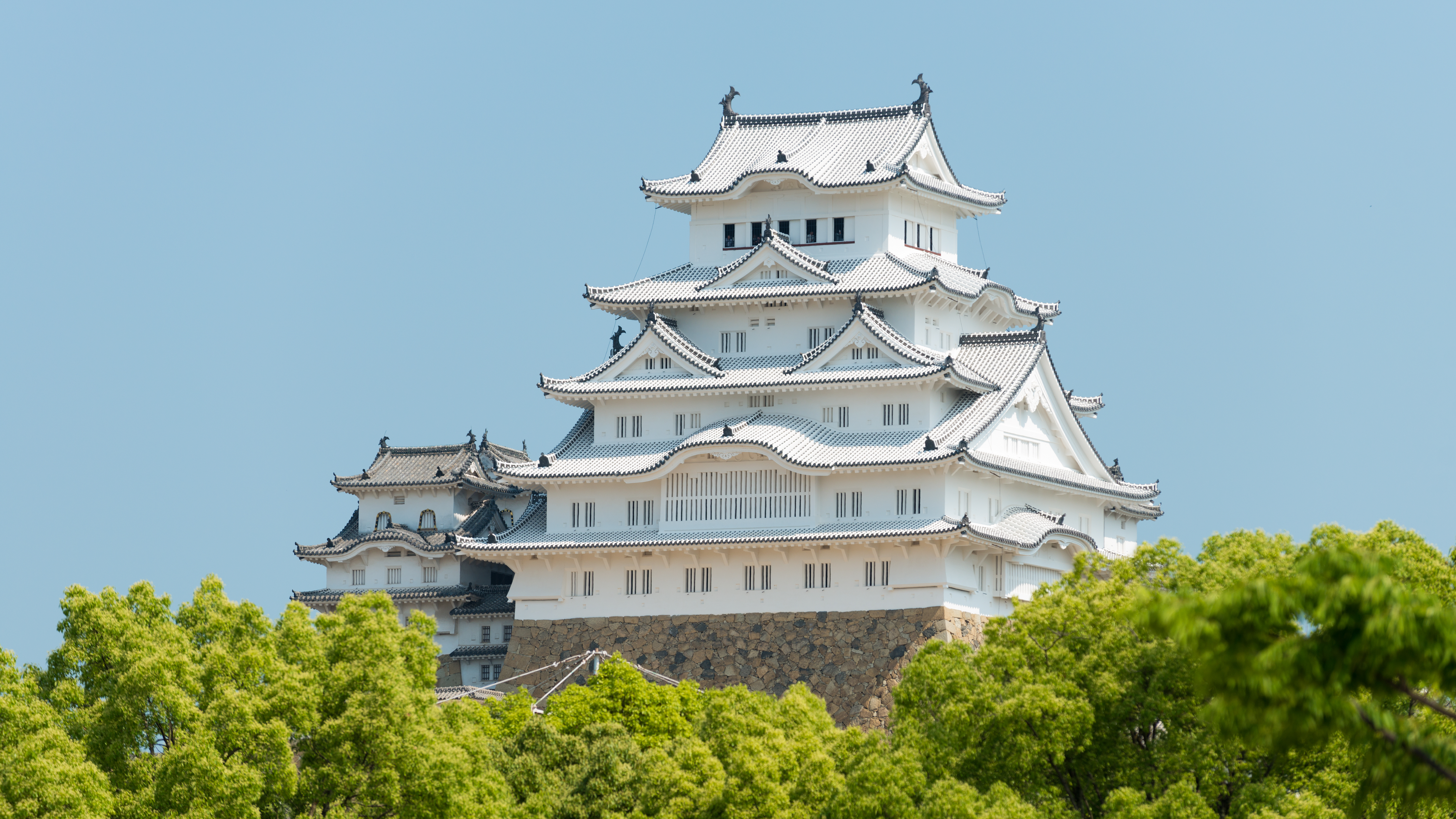 Main Keep (Tenshu – 天守) of Himeji Castle in may 2015 after the five year renovation